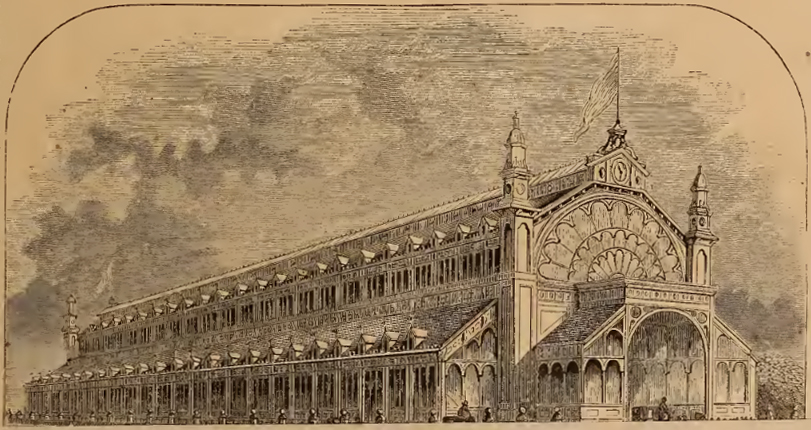 Sir Joseph Paxton's project for a building for the Exhibition of the Industry of All Nations in New York 1853–1854. The project was designed in 1851, before the ground for the Exhibition was chosen. The building was to large for the site, and another project, by the architects Carstensen & Gildemeister was chosen, and became the "New York Crystal Palace".